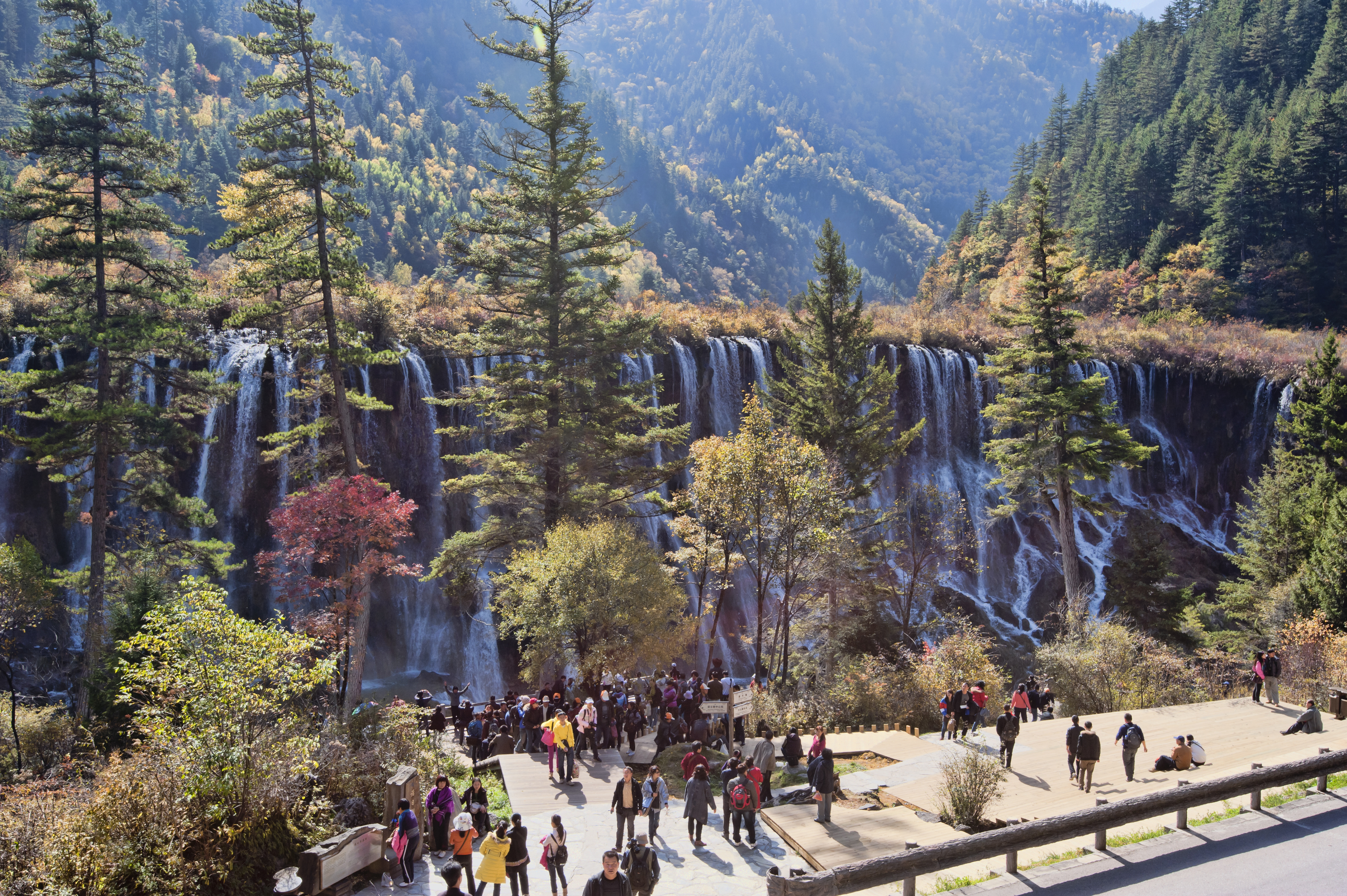 jiuzhaigou valley national park sichuan china autumn fall 2011 nuorilang falls 诺日朗瀑布, Nuòrìlǎng Pùbù shuzheng valley 树正沟